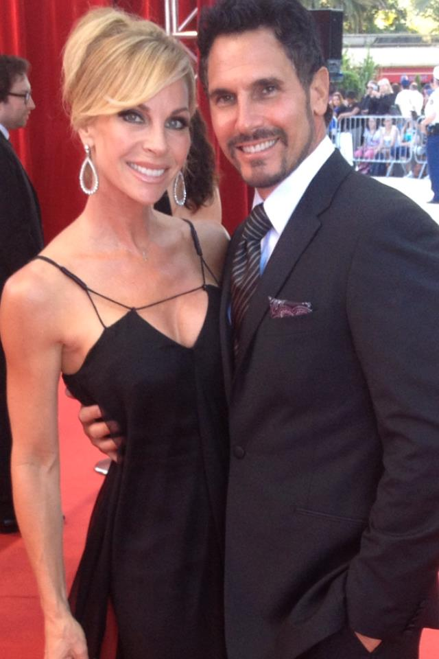 Cindy Ambuehl & Don Diamont 2013